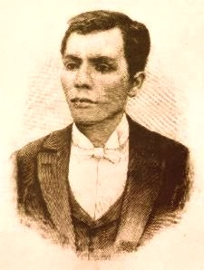 A photo engraving of Andrés Bonifacio (1863-1897), founder of the Katipunan, Philippine revolutionary society from February 8, 1897 issue of La Ilustración Española y Americana, a Spanish-American weekly publication